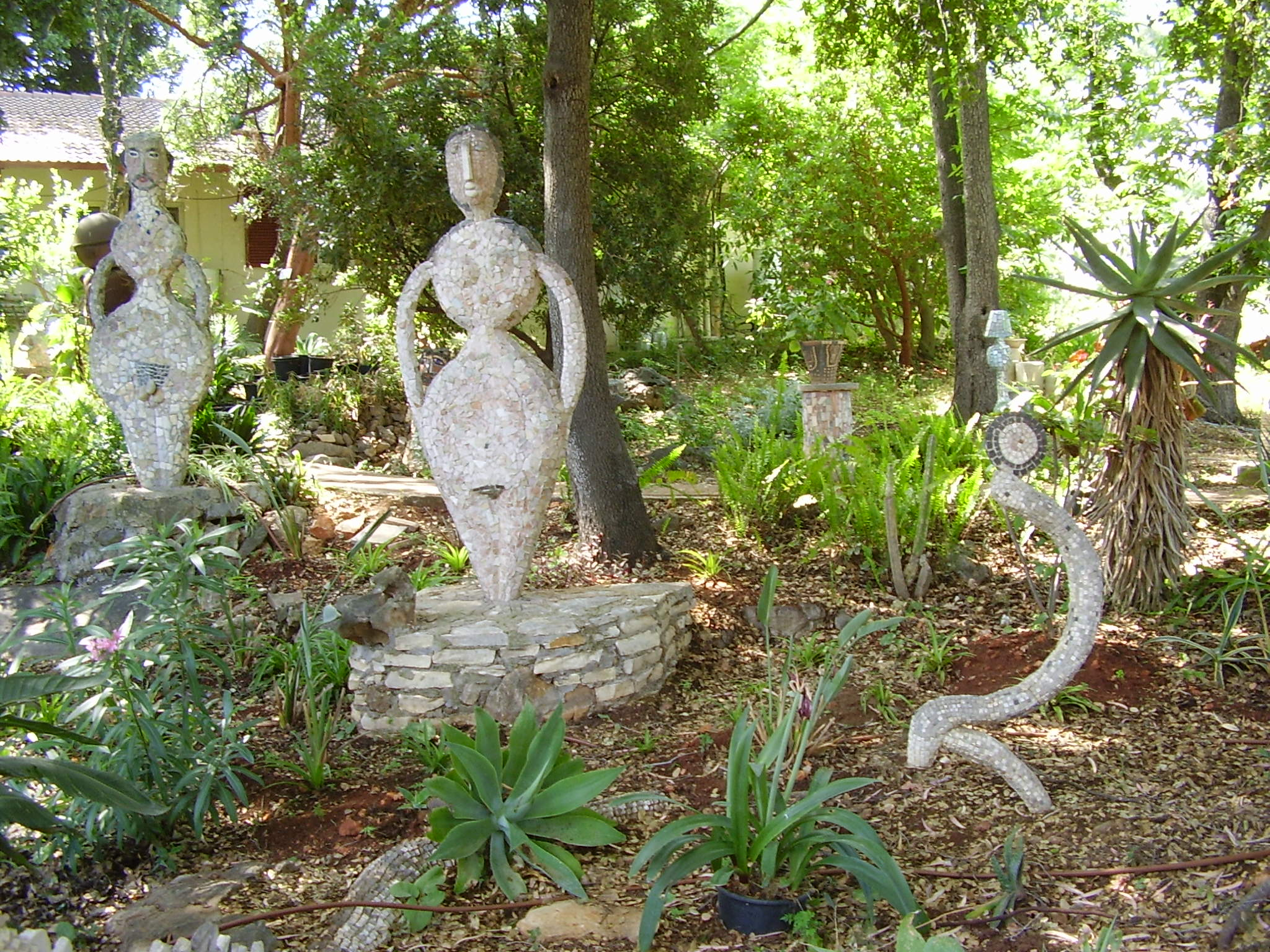 Adam and Eve and the Snake, in the mosaic garden, kibutz Eilon, Israel